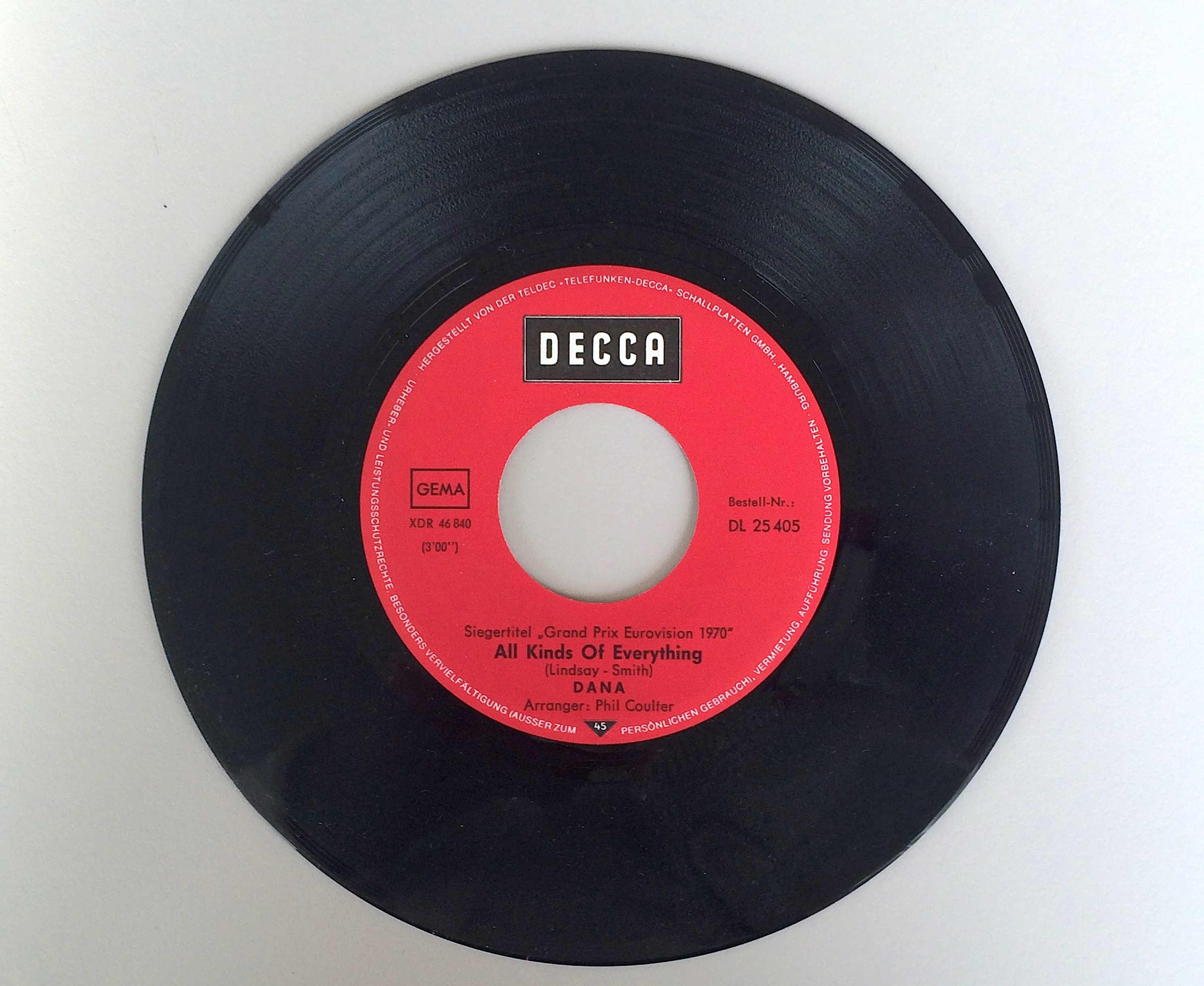 Single All kinds of everything, Dana (irische Sängerin) 1970